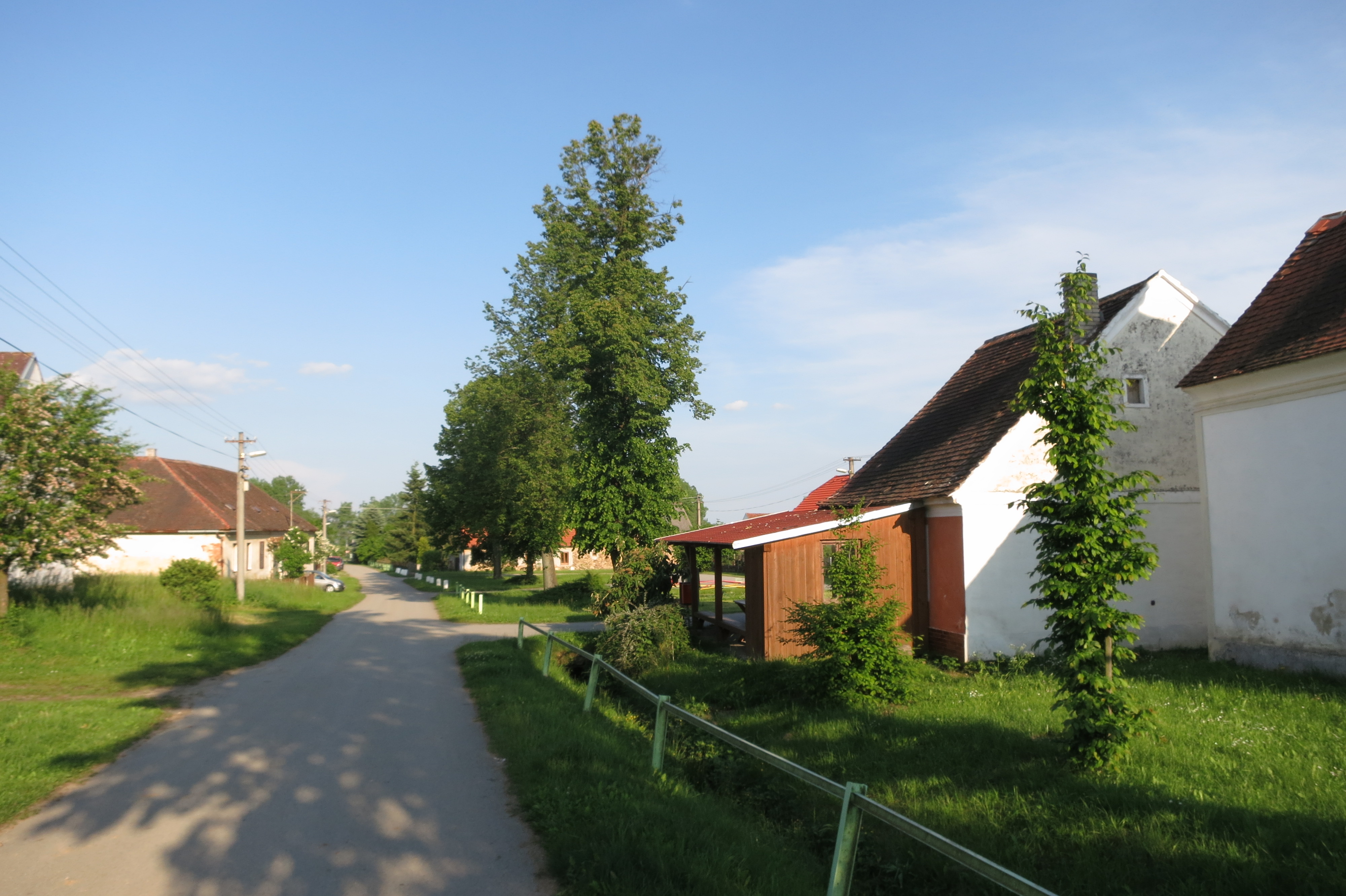 Center of Bělčovice, Dešná, Jindřichův Hradec District.